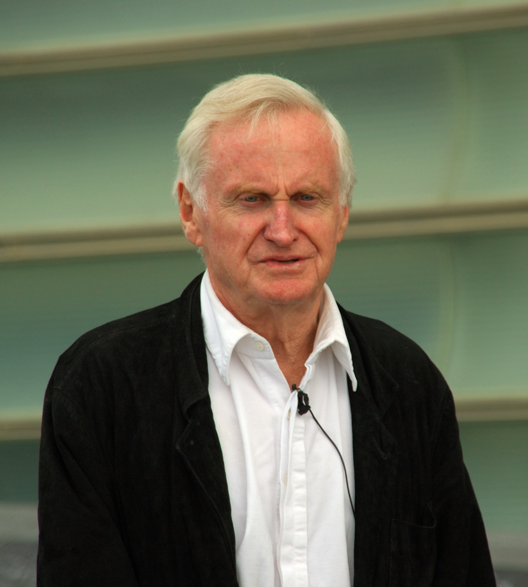 John Boorman at the 2006 San Sebastian International Film Festival.